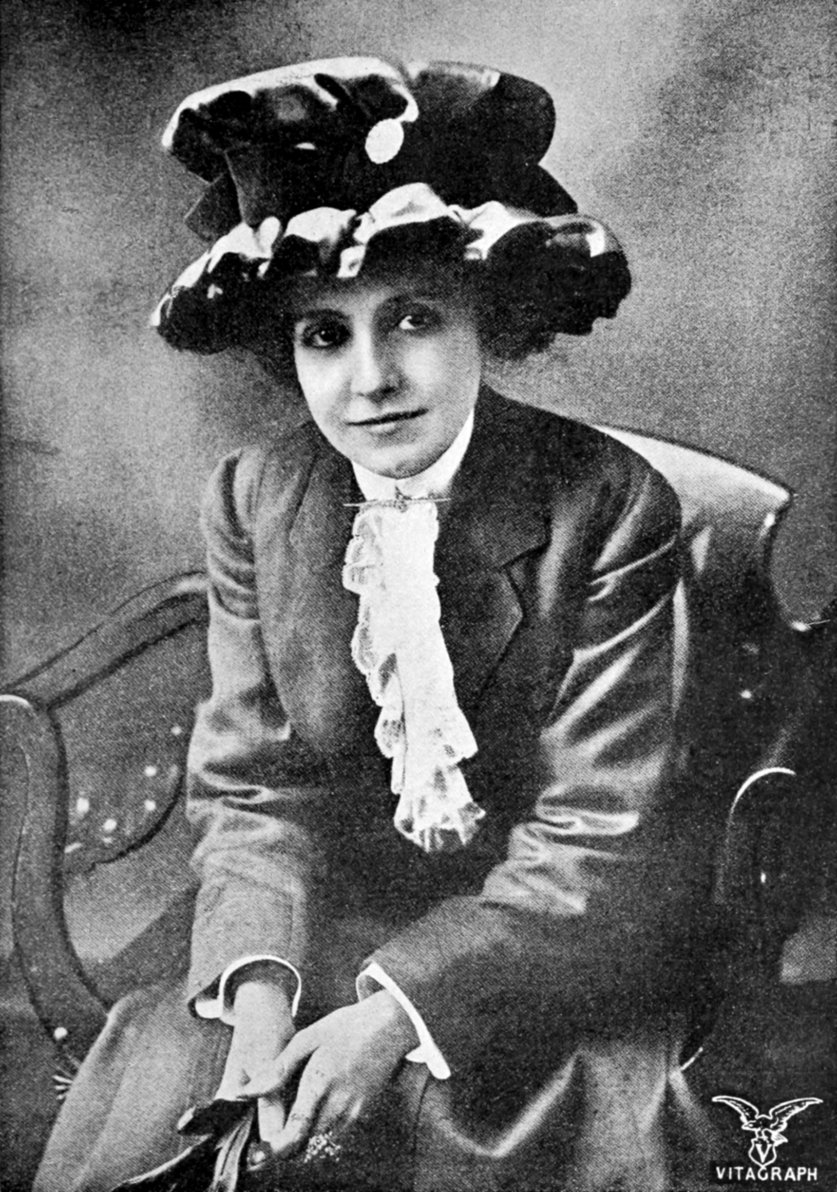 Promotional photograph of actress Florence Turner, the Vitagraph Girl